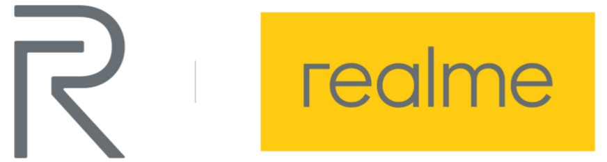 Realme symbol and logo